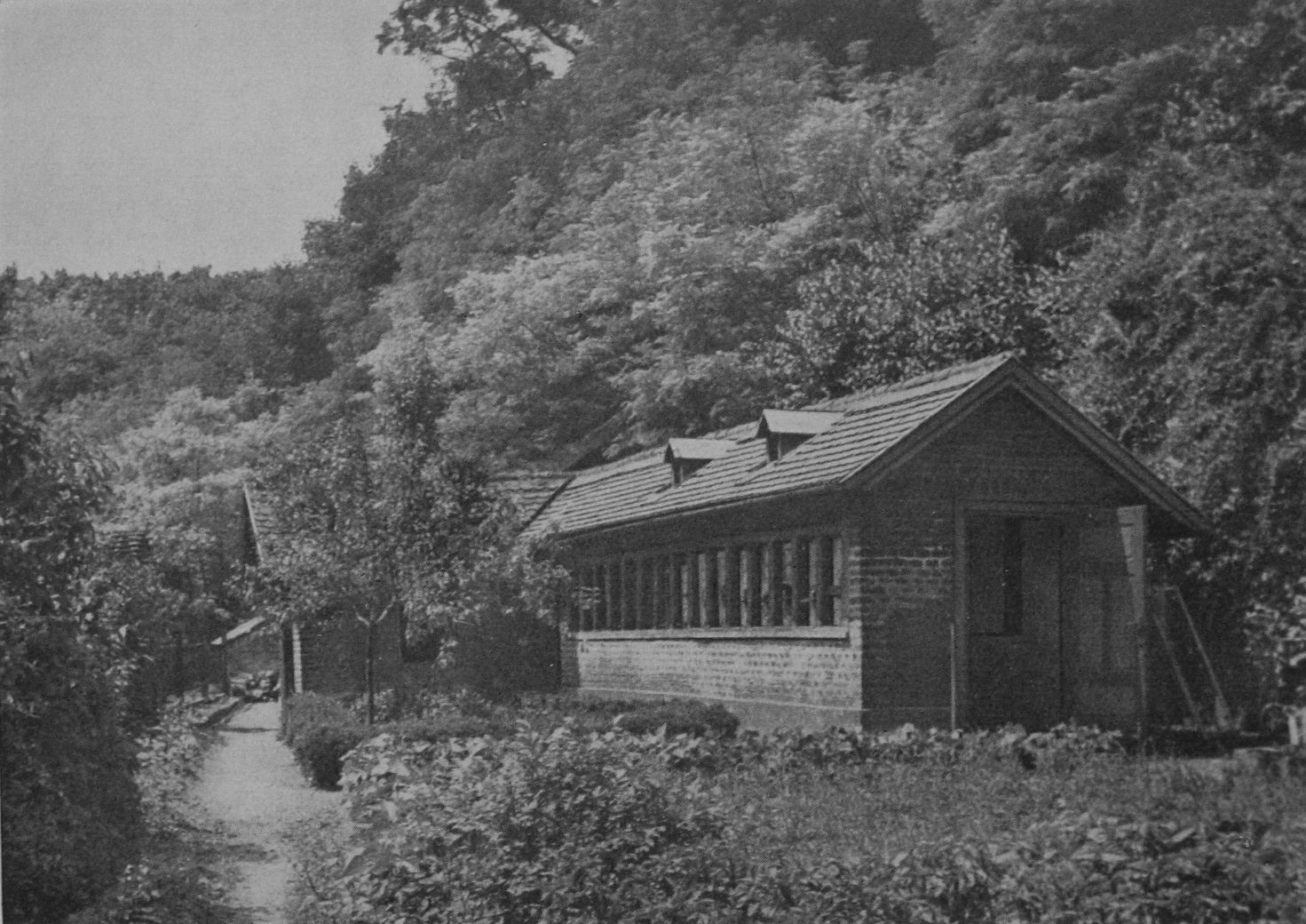 Old photo of Gregor Mendel's beehive.